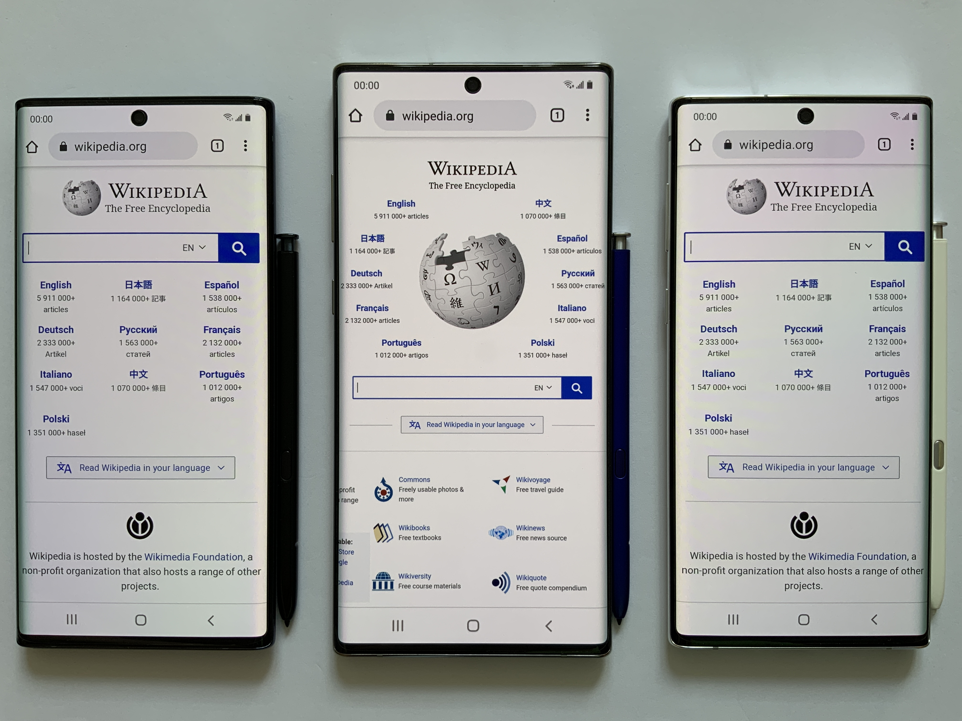 Wikimedia screenshots on Samsung Galaxy Note 10 smartphones